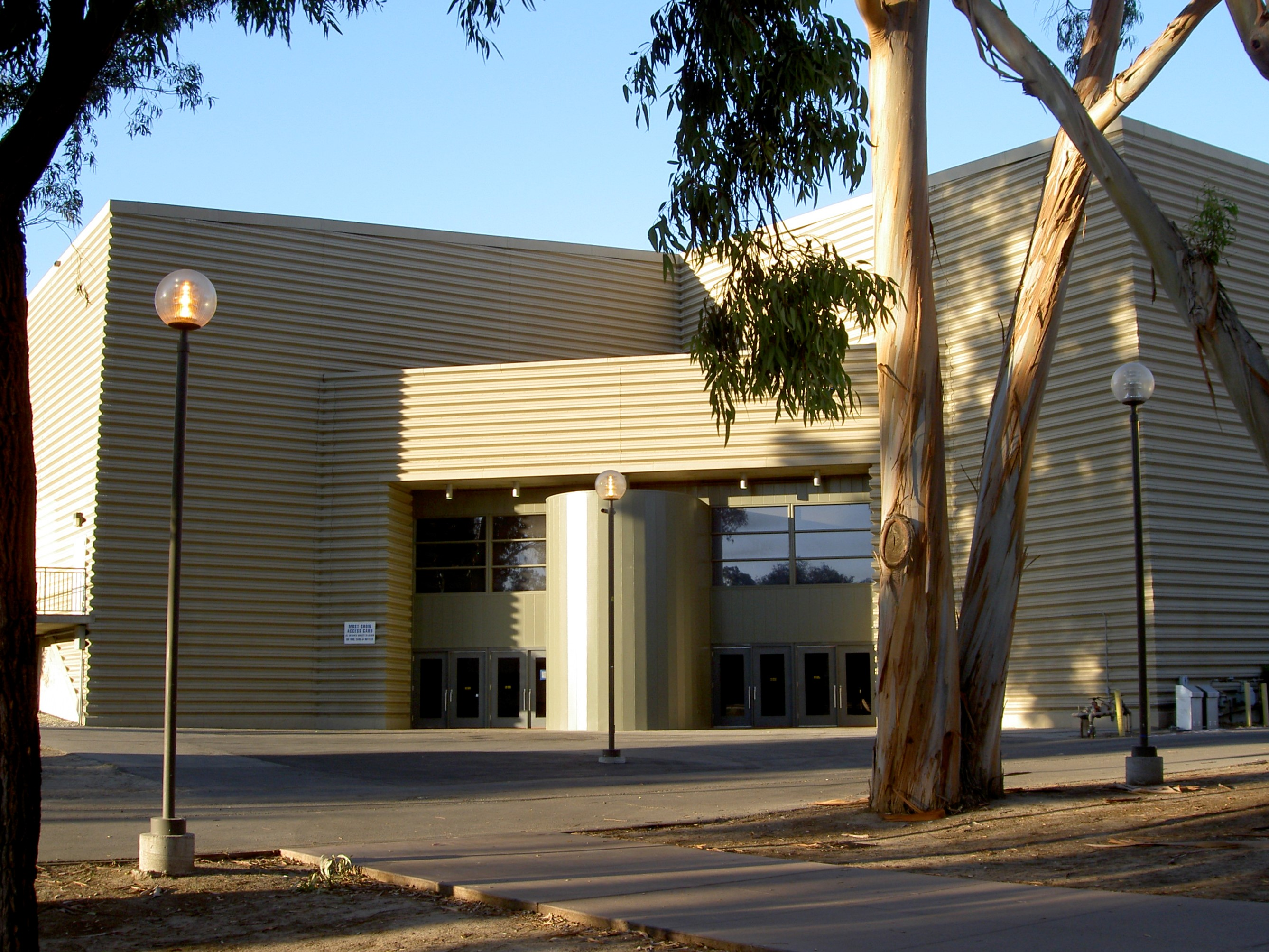 UCSB Events Center back by Dreamyshade